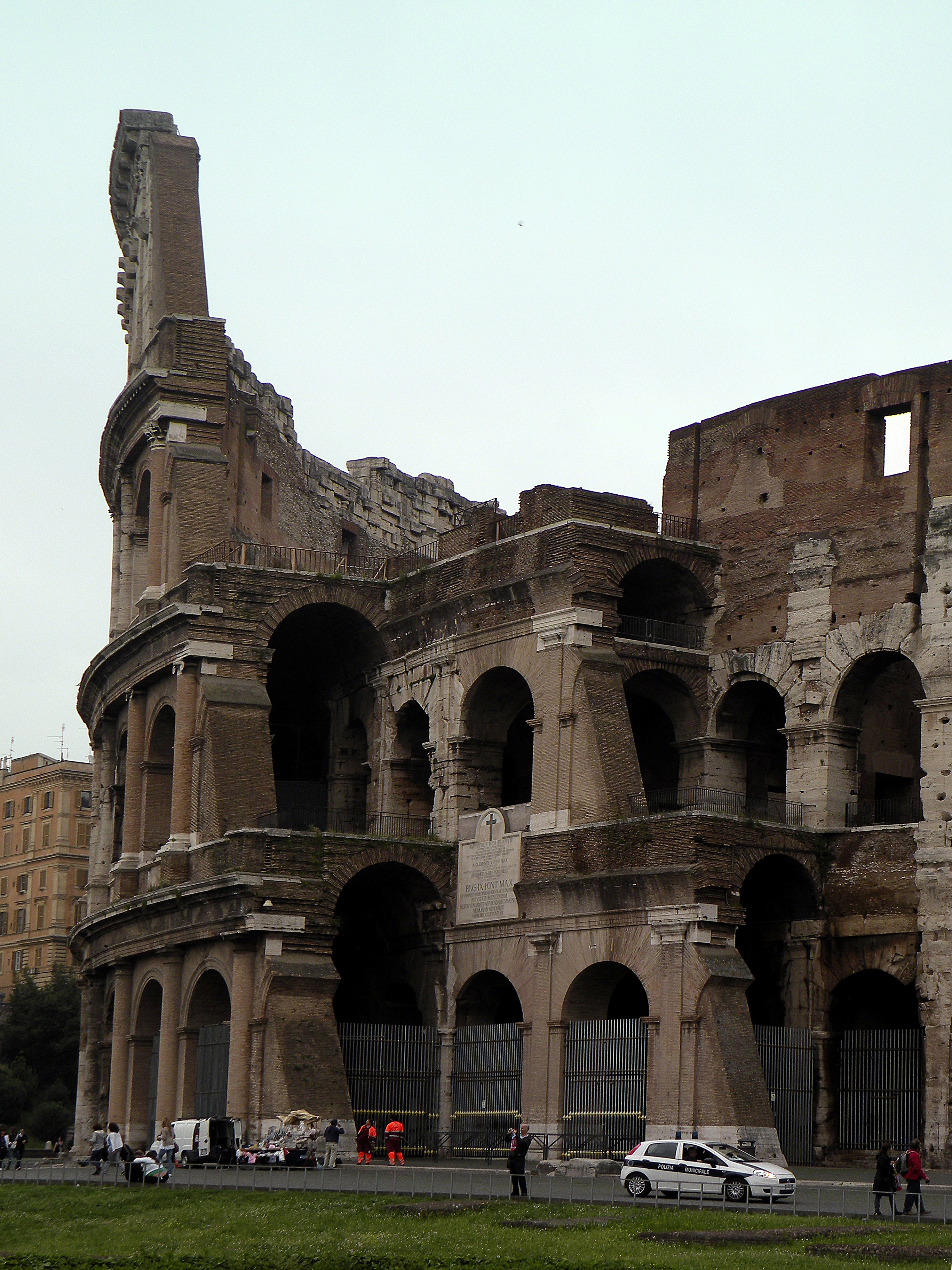 Colosseum. Half cross section.